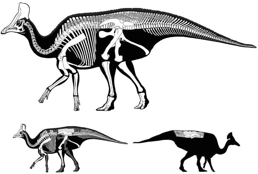 Reconstruction in a quadrupedal gait of the skeleton of hadrosaurid dinosaur Olorotitan arharensis Godefroit, Bolotsky, and Alifanov, 2003, from the Upper Cretaceous of Kundur (Russia). B shows the preserved bones in the holotype, AEHM 2/845 (white). C shows the preserved bones in AEHM 2/846.